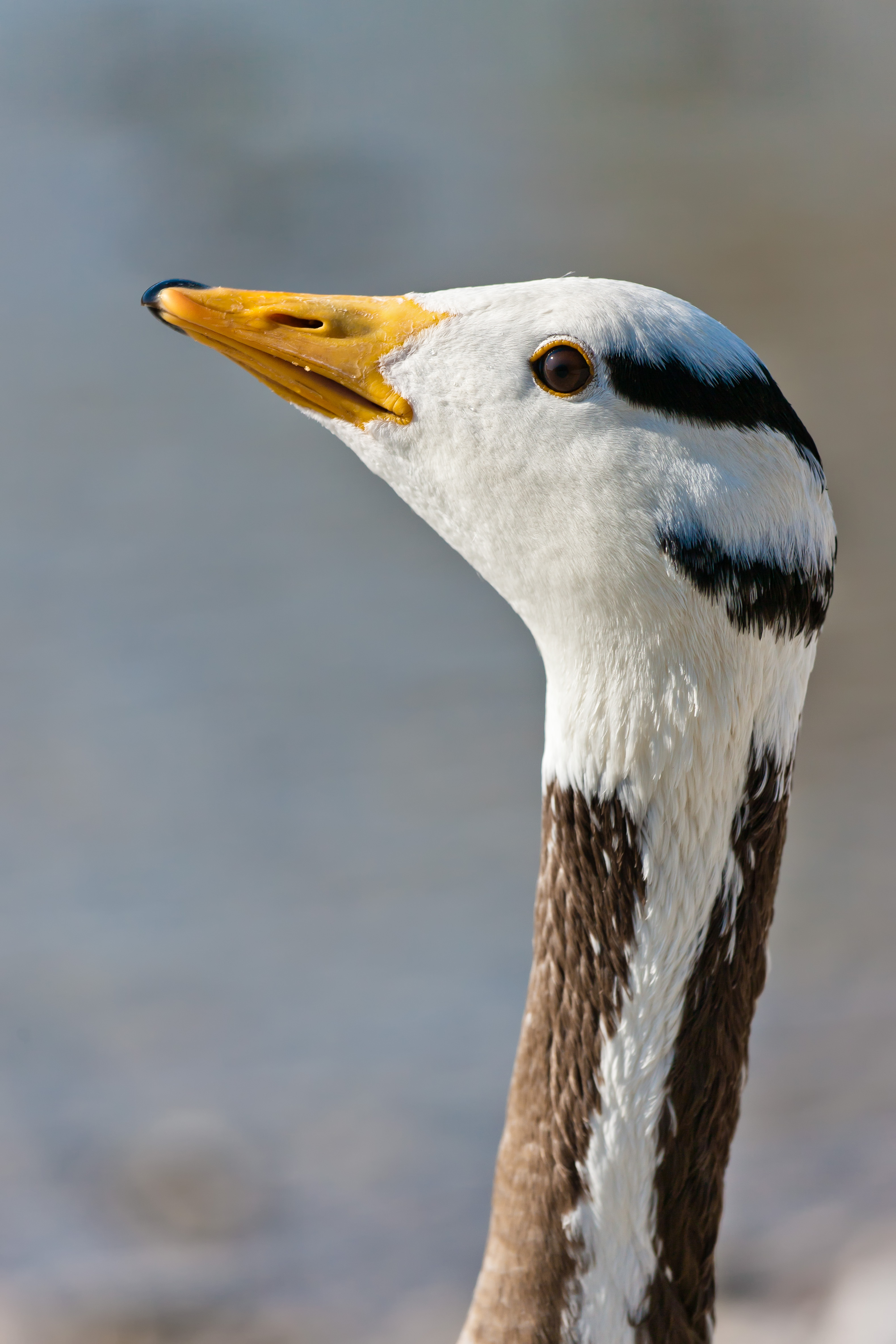 Description: The Anserinae is a subfamily in the waterfowl family Anatidae. It includes the swans and true geese. As shown (Anser indictus)